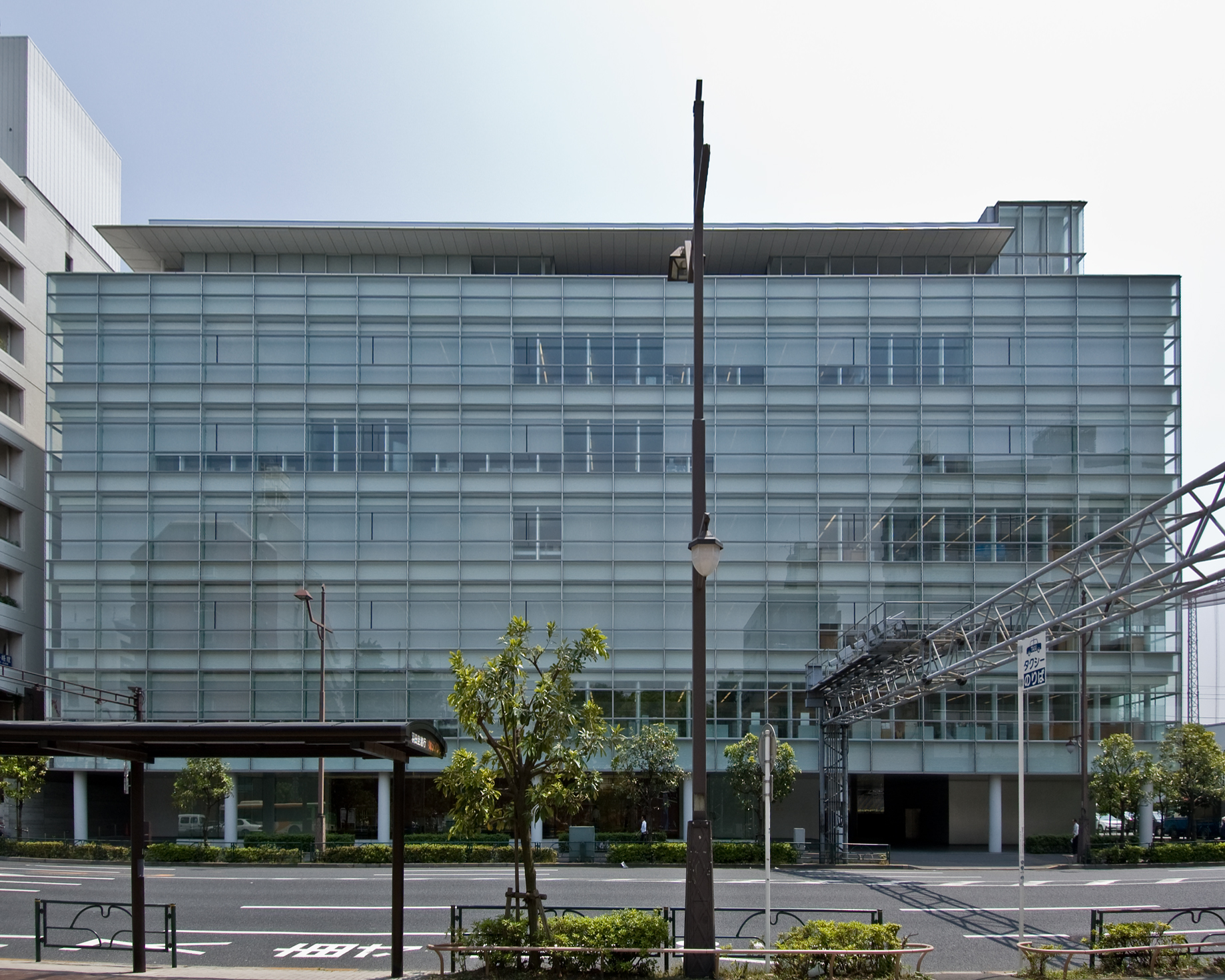 Rolex Toyocho Building, at Toyocho, Tokyo, Japan, designed by Fumihiko Maki in 2003.